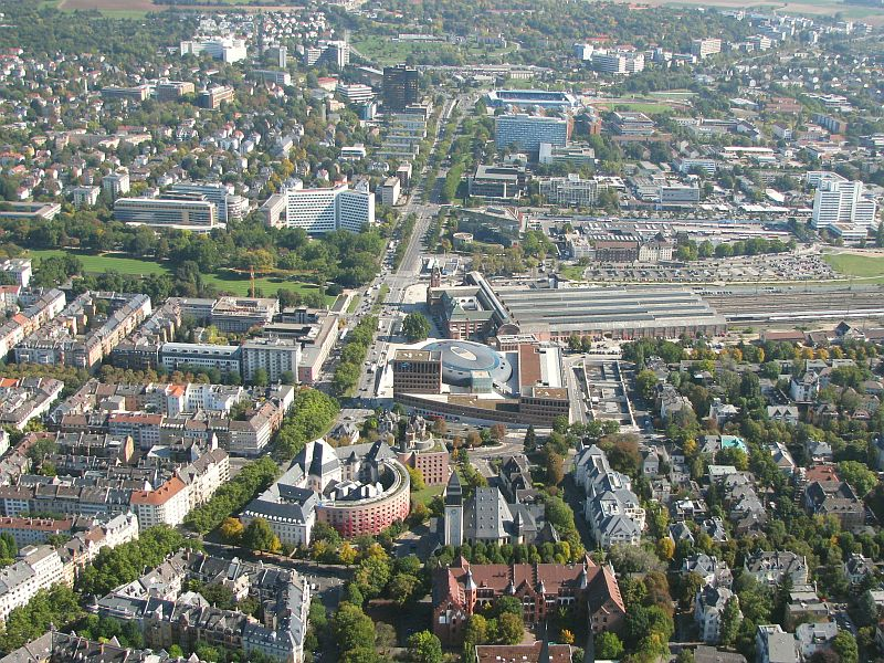 Aerial view of Wiesbaden main railway station